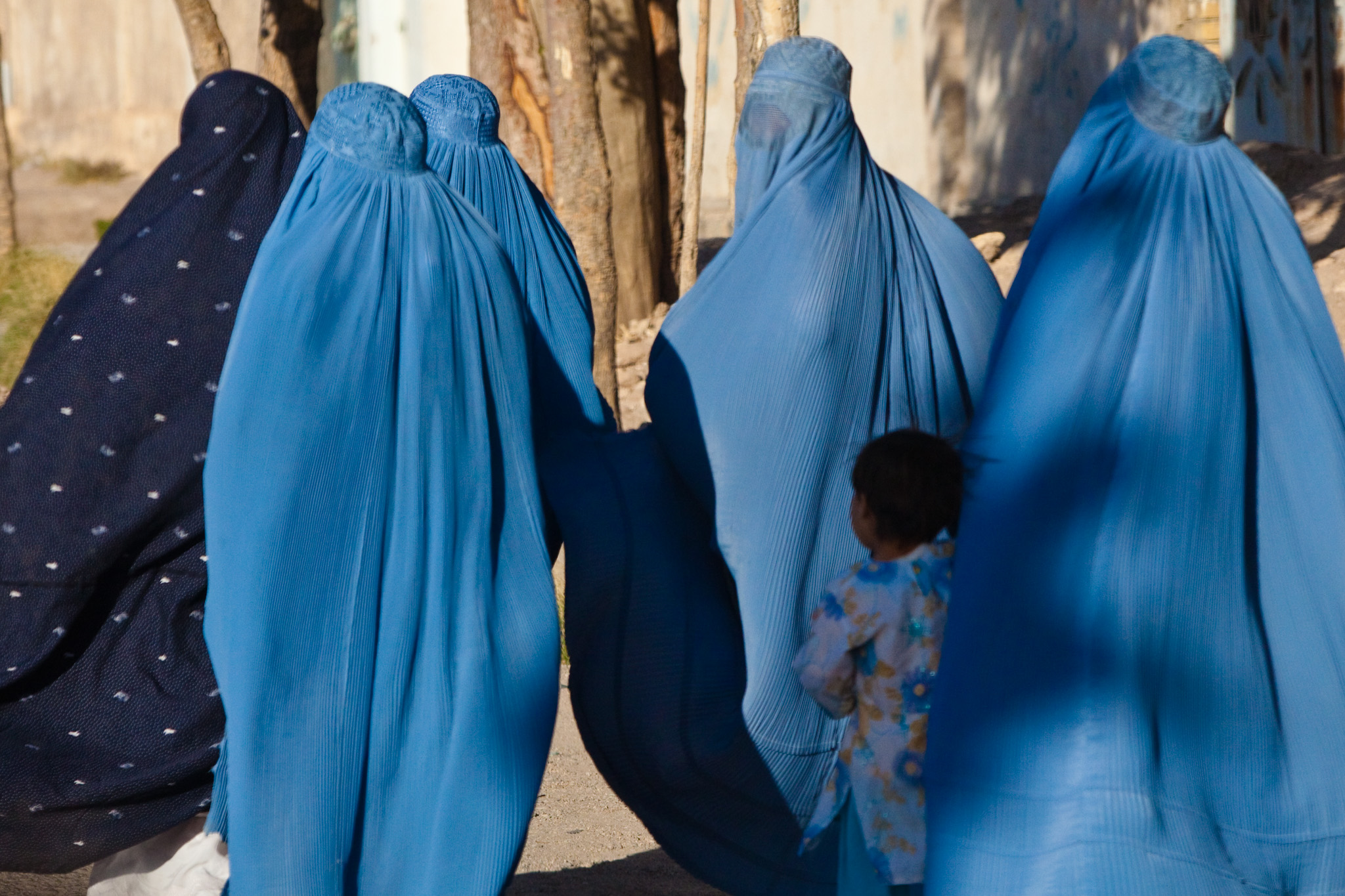 Women in burqa with their children in Herat, Afghanistan